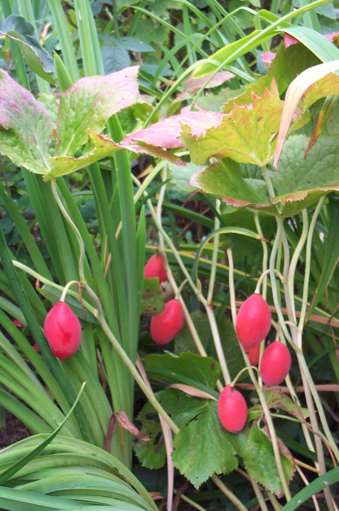 Fruits of Podophyllum hexandrum- Himalayan mayapple or Indian may apple